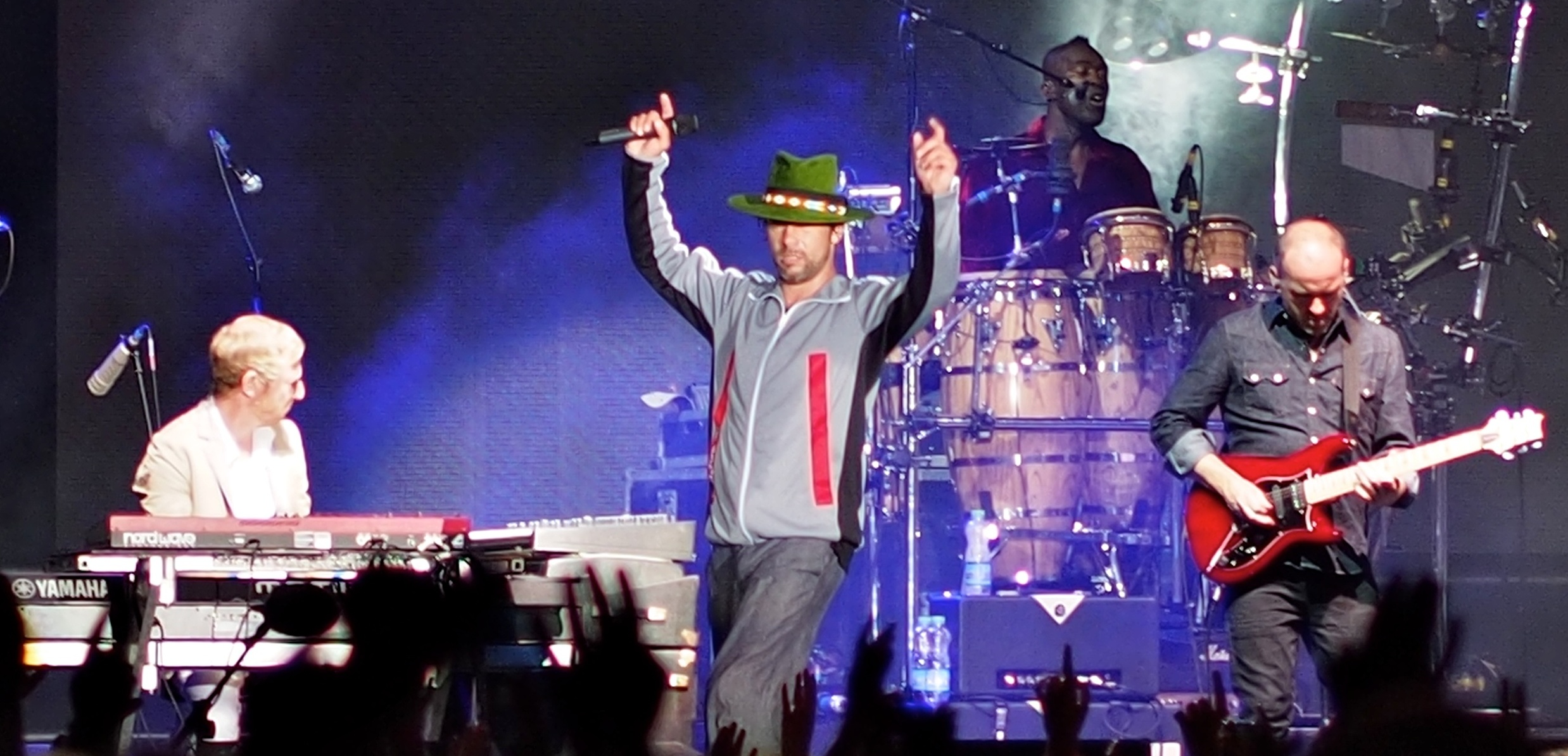 @Arena Armeec, Sofia, Presented by SYMPHONICS' CONCERTS